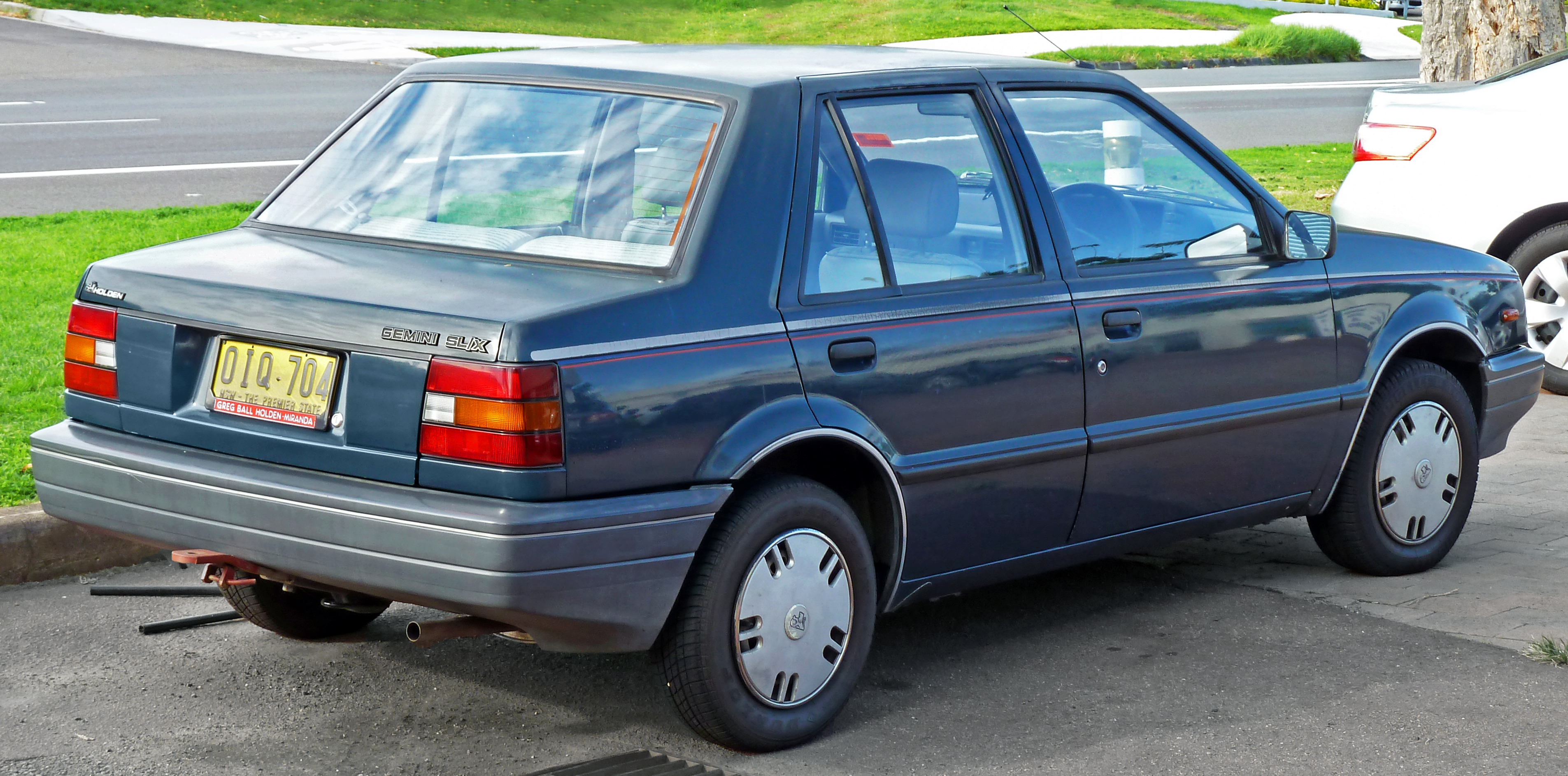 1986 Holden Gemini (RB) SL/X sedan. Photographed in Kirrawee, New South Wales, Australia.